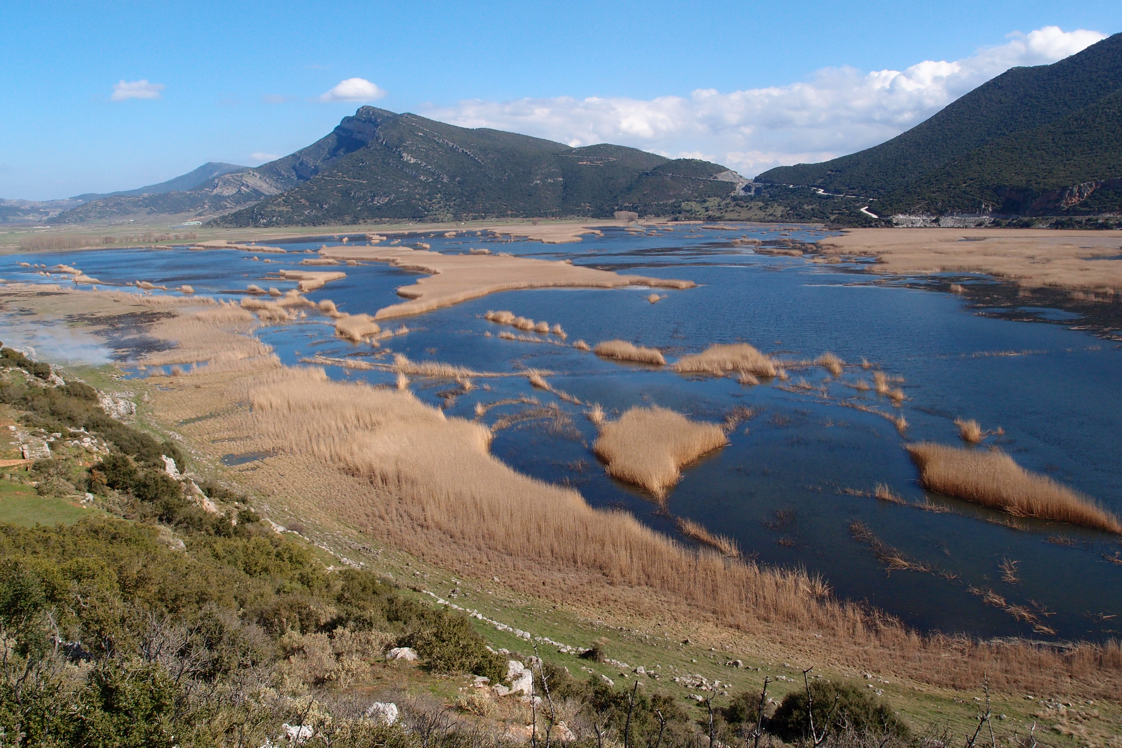 Lake Stymphalia, Greece